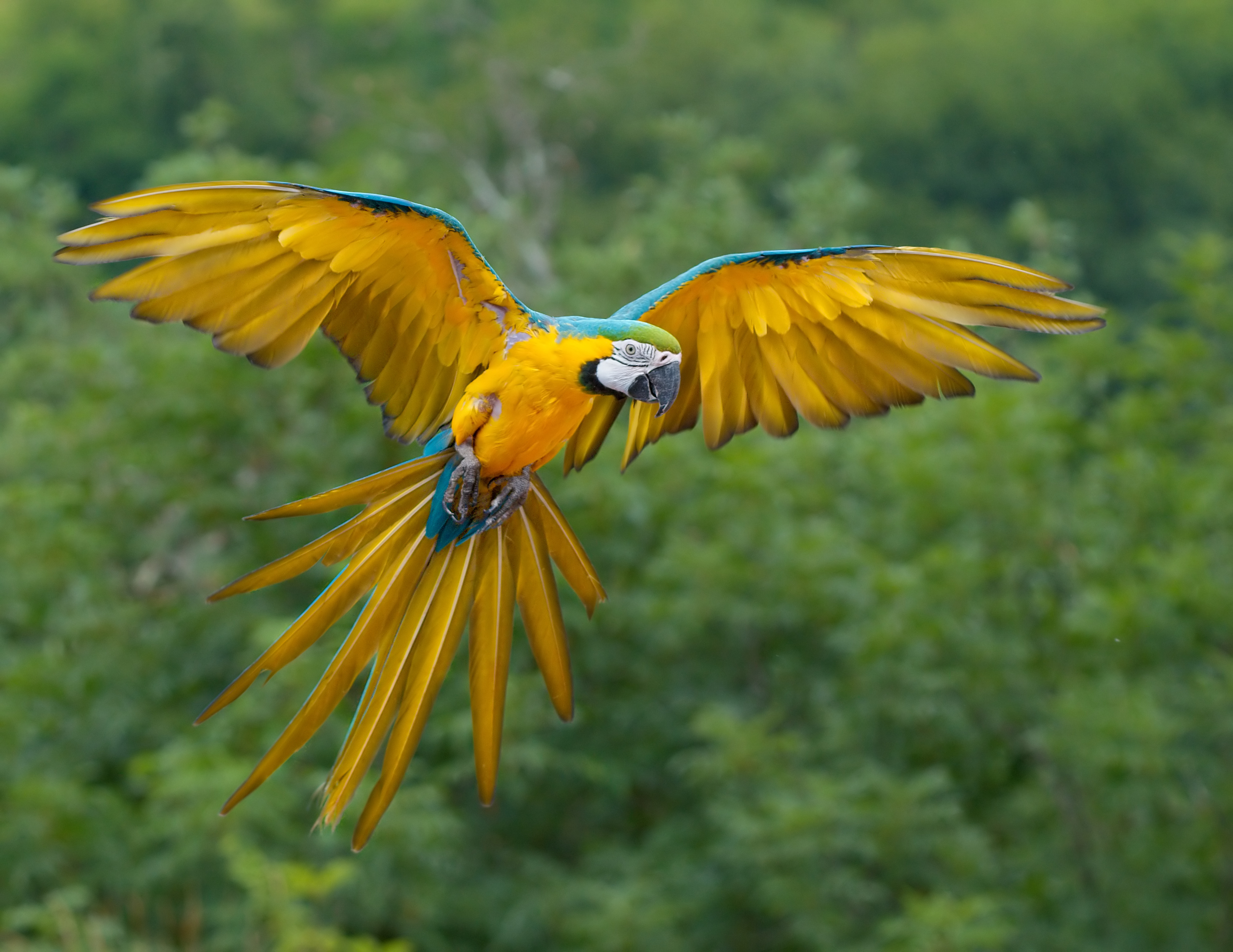 Blue-and-yellow Macaw in flight.